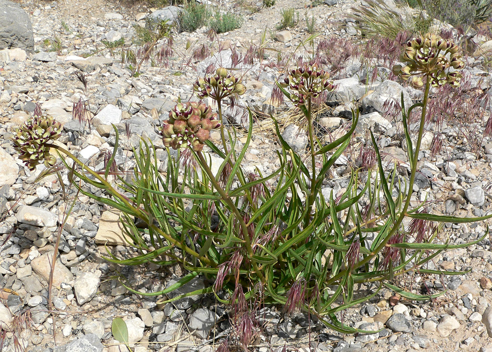 Asclepias asperula in Red Rock Canyon, Nevada